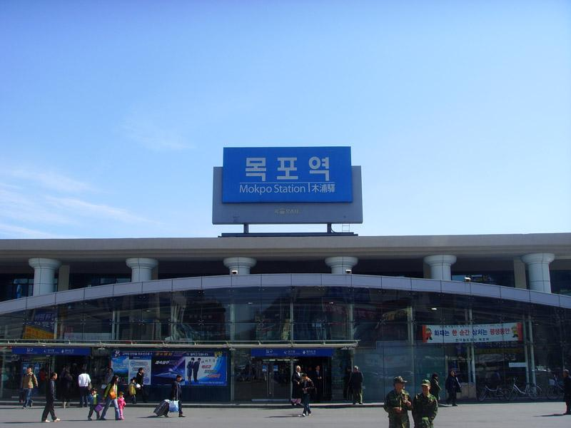 Honam Line Mokpo Station (Honam-dong, Mokpo-si, Jeollanam-do, South Korea)